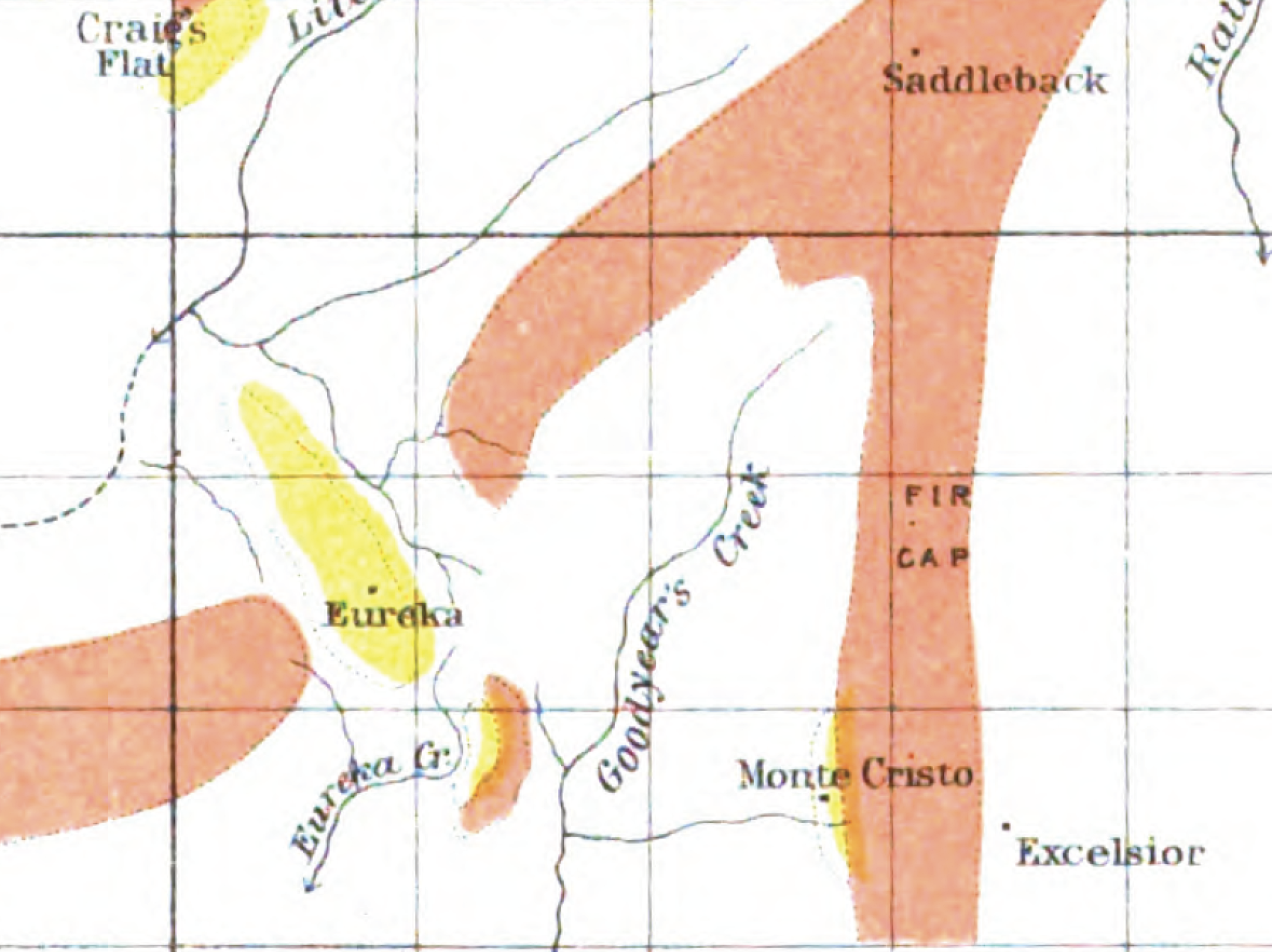 Shows a map of Monte Cristo and Goodyear Creeks in Sierra County.